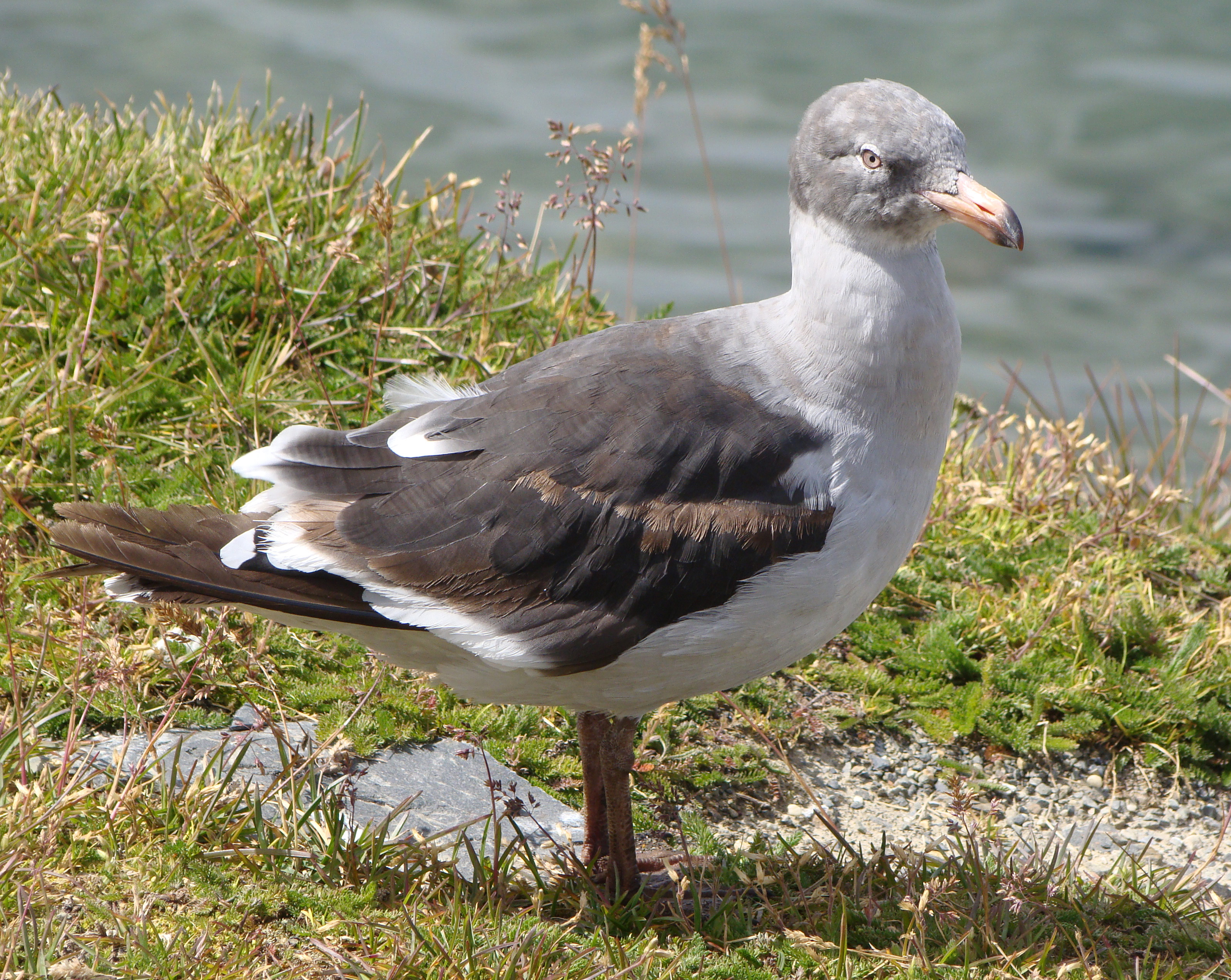 Immature Dolphin Gull, Leucophaeus scoresbii, photographed in Beagle Channel, Argentina, on January 2009.